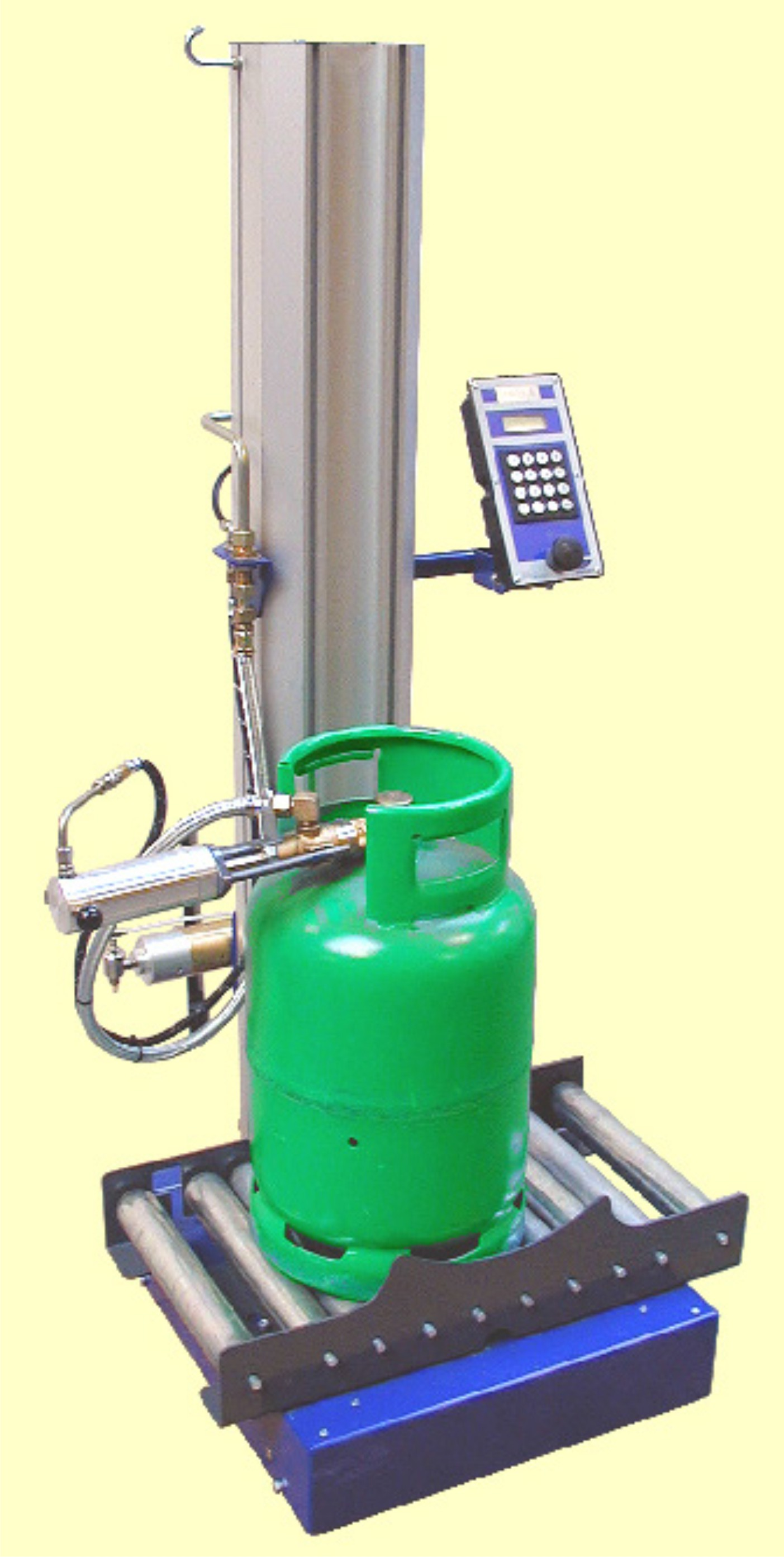 Аппарат для корректировки веса заполненного баллона